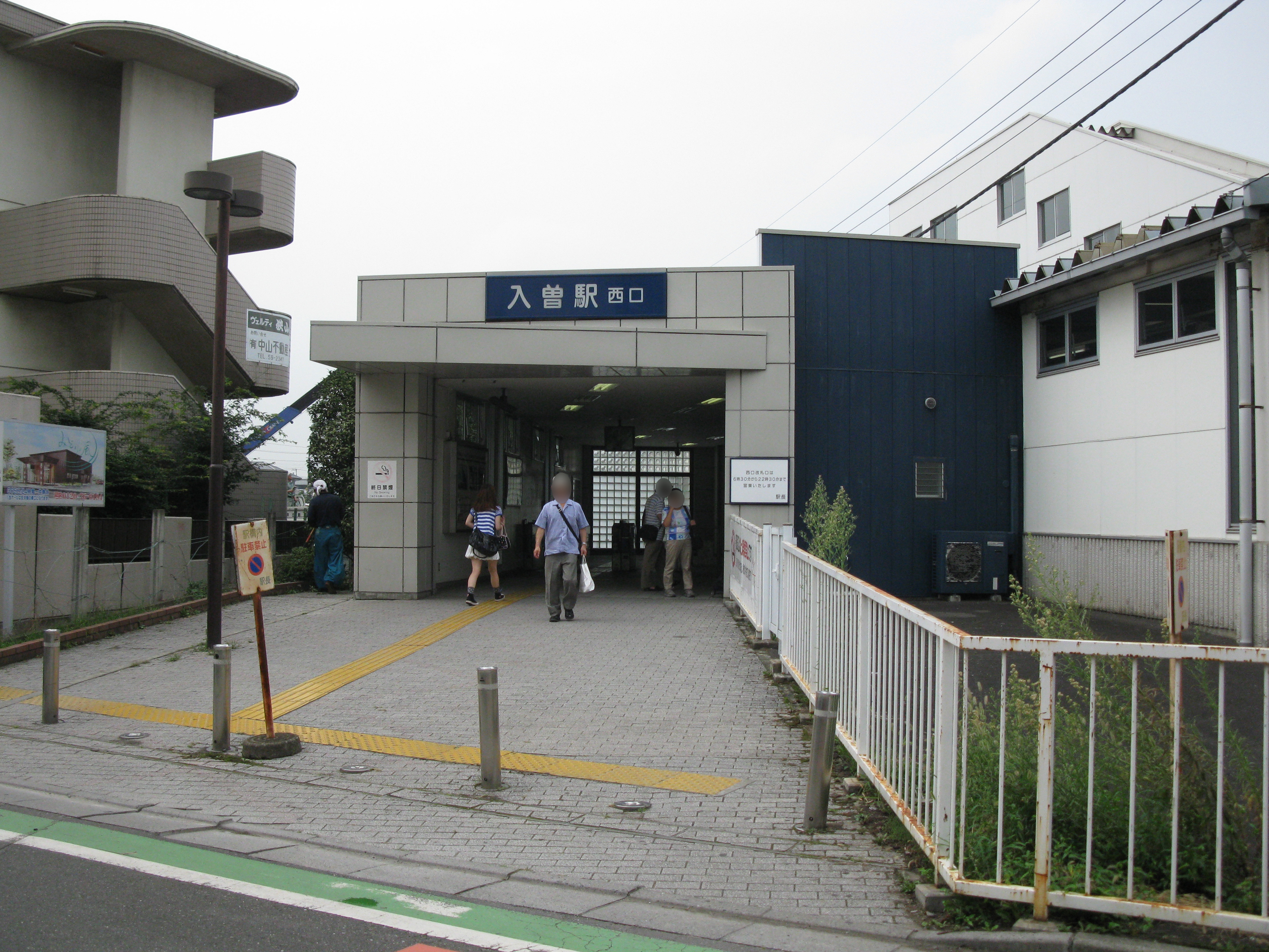 Iriso Station west entrance (Seibu Railway Shinjuku Line)